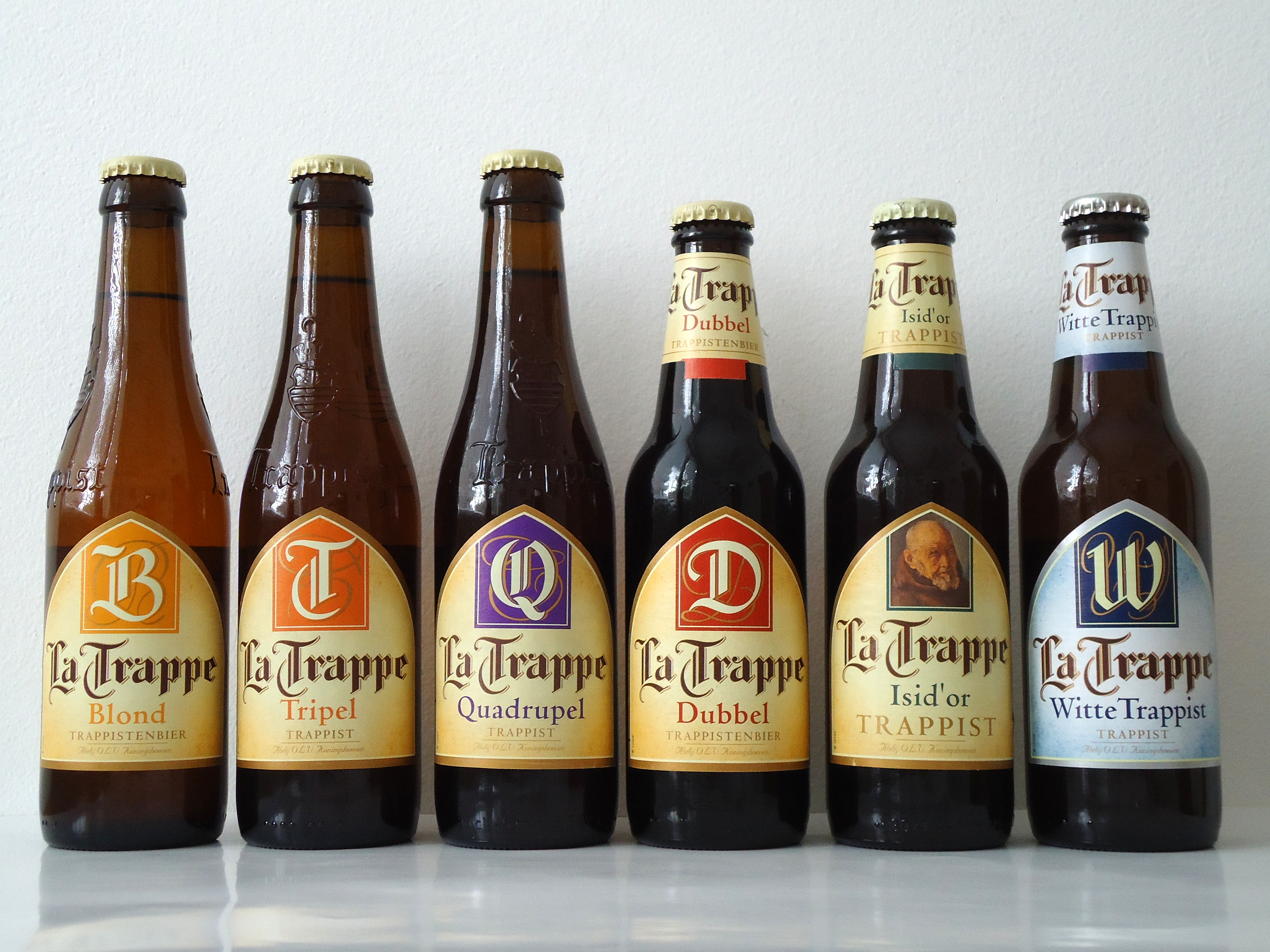 La Trappe 6 beers